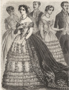 Bertha neckline. Decorative extravagant flounces.